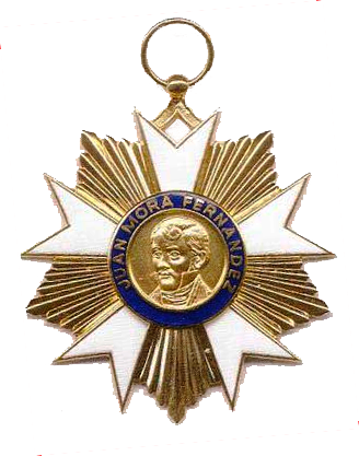 Juan Mora Fernandez National Order